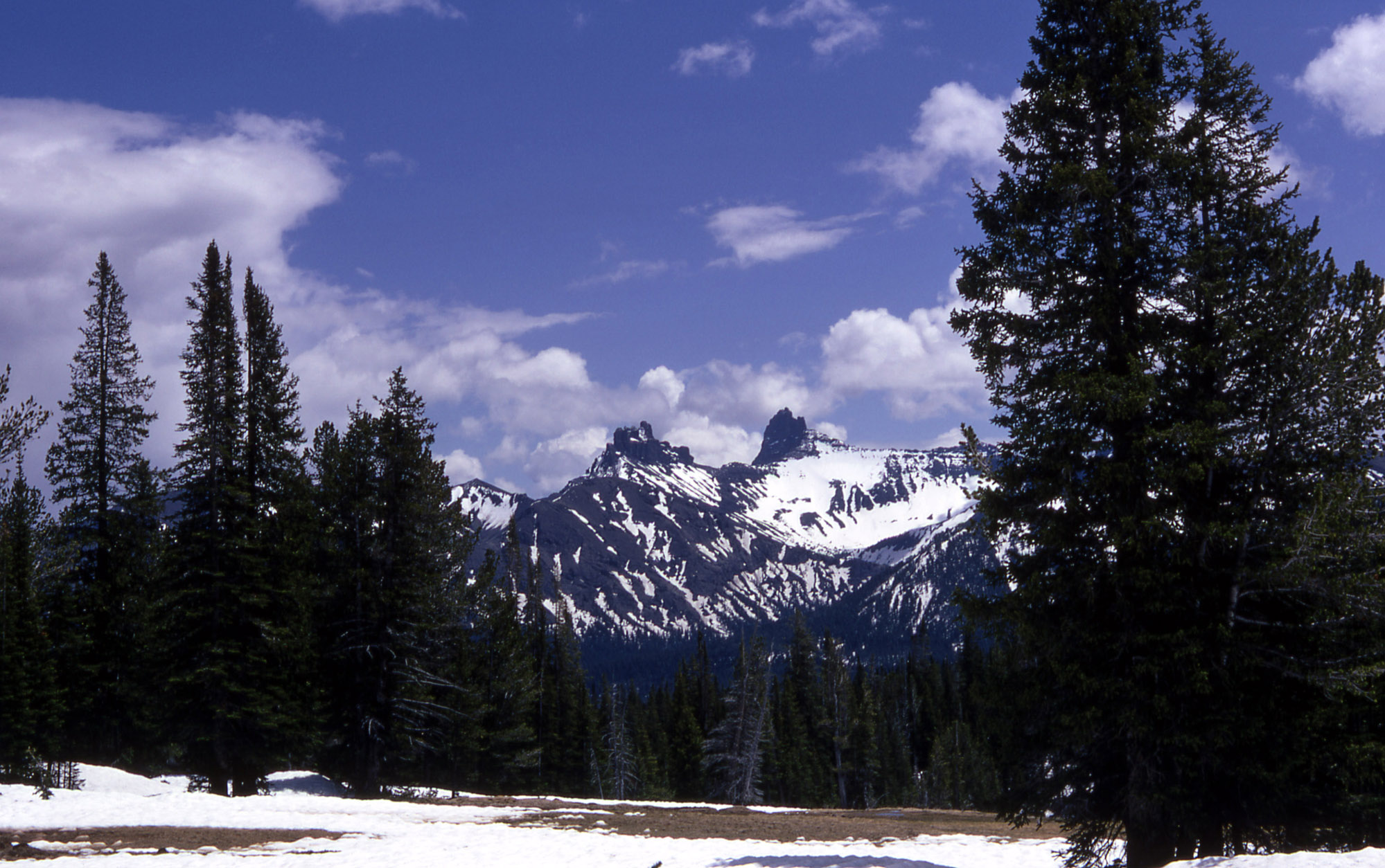 Pilot and Index peaks in the Absaroka Range of Wyoming, United States